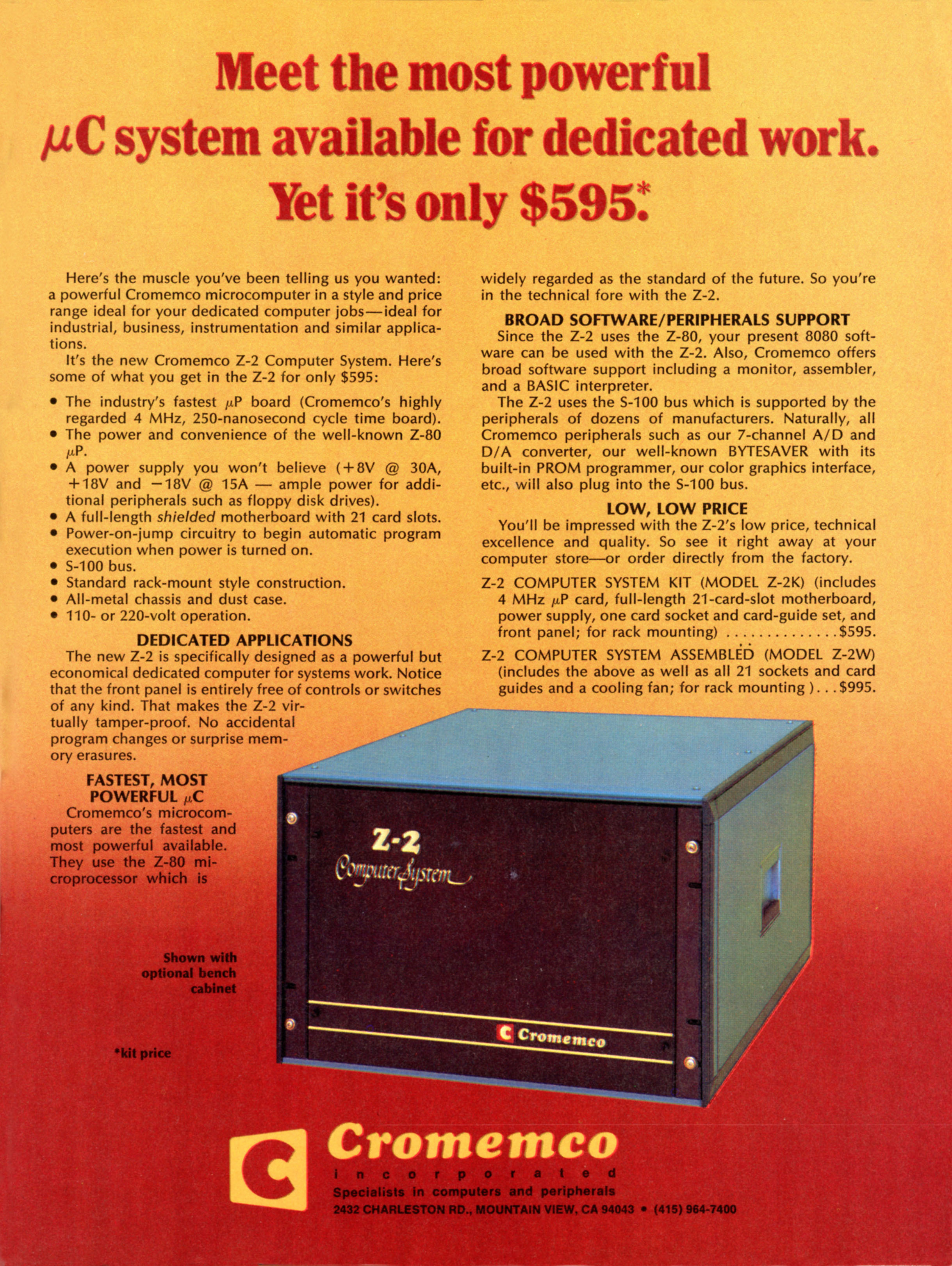 A Cromemco advertisement from the July 1977 issue of Byte magazine, page1.